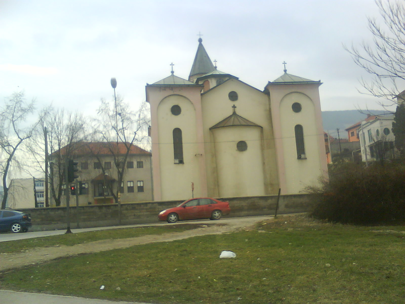 City of Zenica